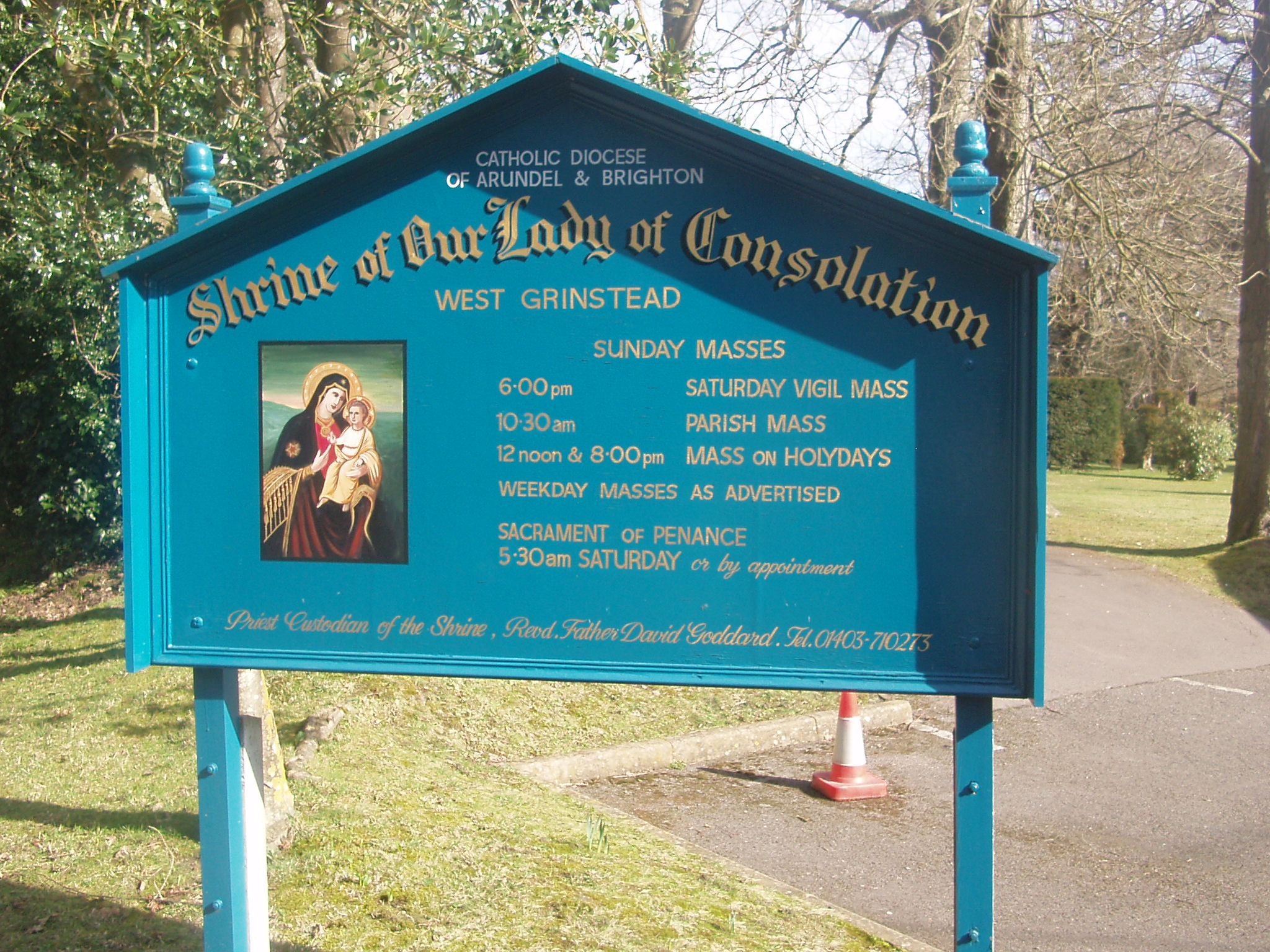 Church in West Grinsted where Hilaire Belloc is buried